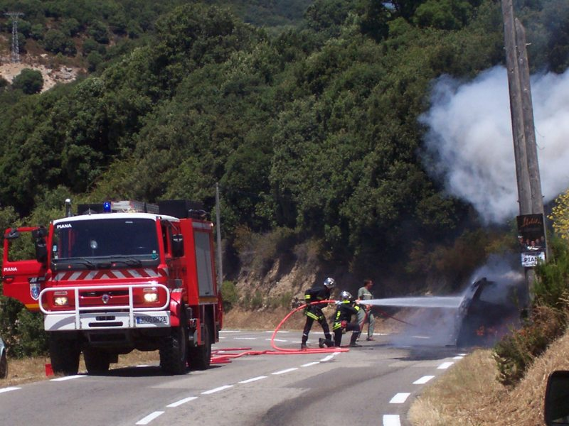 Fireman Corse France